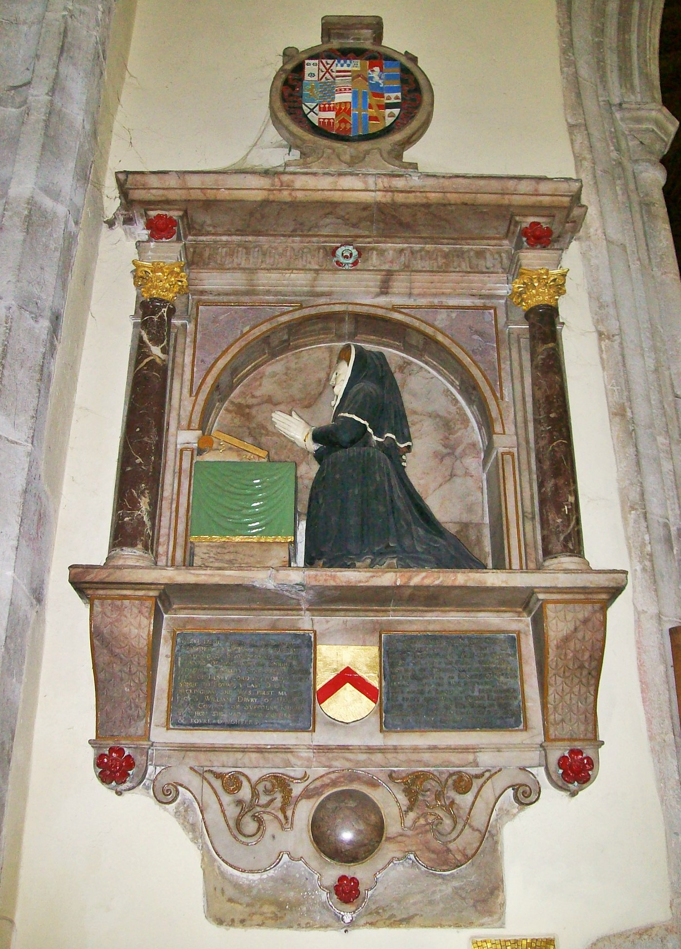 Stafford memorial, St Mary, Nettlestead. Arms: Scott of Scot's Hall and of Nettlestead Place in Kent (of 9 quarters) , impaling Stafford (of 6 quarters).